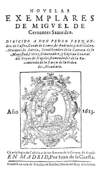 Title page of Miguel de Cervantes Novelas Exemplares (1613)